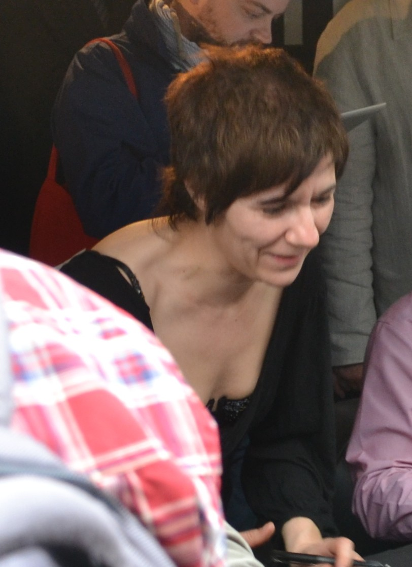 Christopher Paolini | Empar Moliner